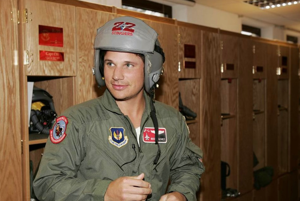 Nick at Ramstein AirBase, back in April.